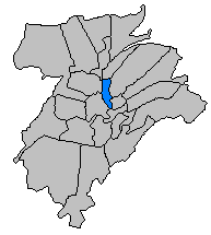 Map of Luxembourg City, Luxembourg, with the boundaries of the city's twenty-four quarters demarcated and the quarter of Pfaffenthal highlighted in blue.